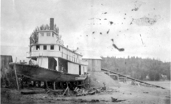 Photo taken 1913 #B-00333